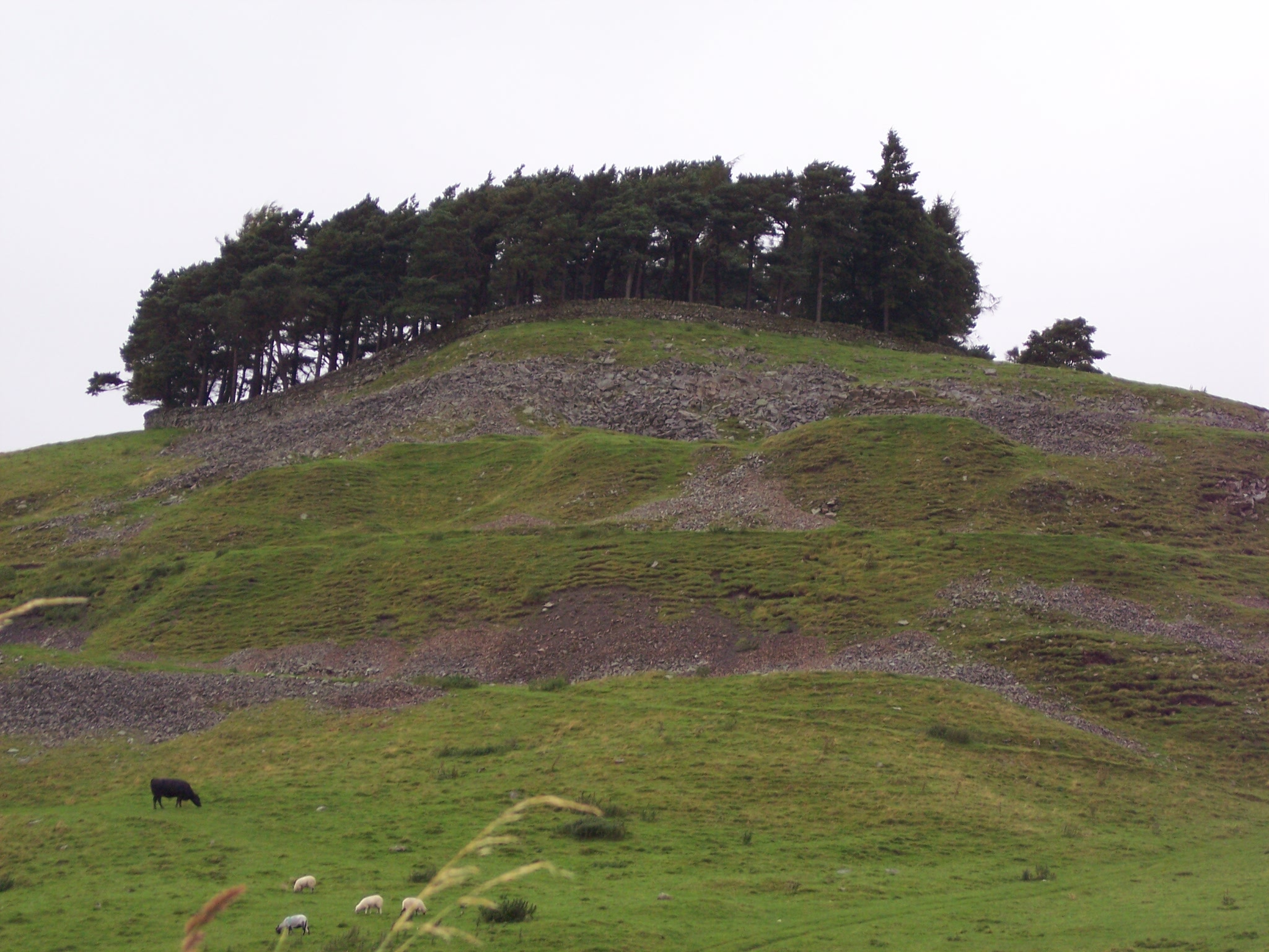 photo of Kirkcarrion